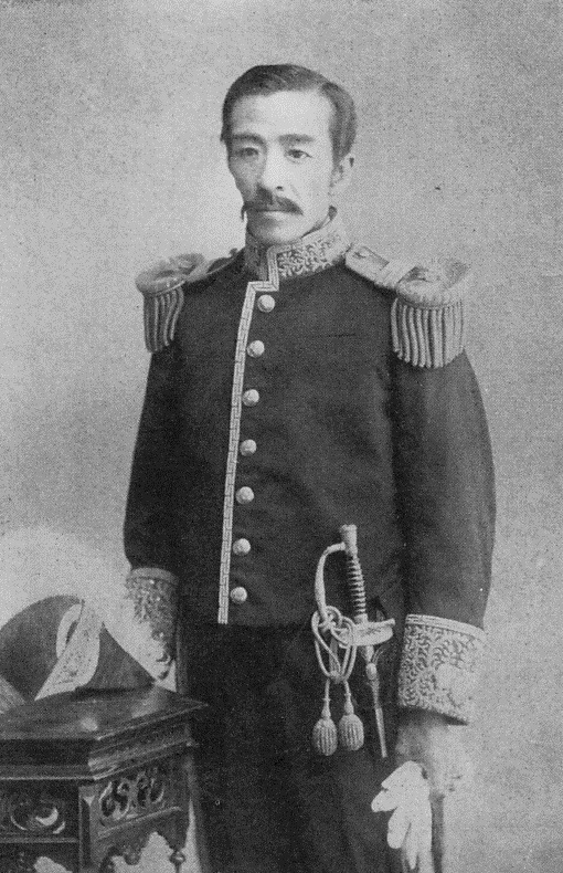 Terushige Okumura